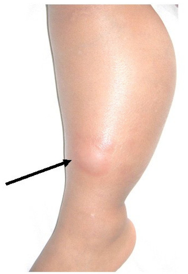 Figure 1. Marked swelling of the left lower leg first developed 16 months after arthritis onset and 8 months following initiation of anti-tuberculosis treatment. An erythematous bleb (arrow) was incised and the extruded fluid stained positive for acid fast bacilli.